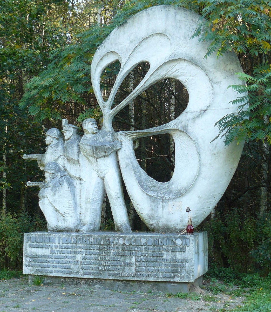 Monument paratroopers (around Klempicz, Poland). Road 182.